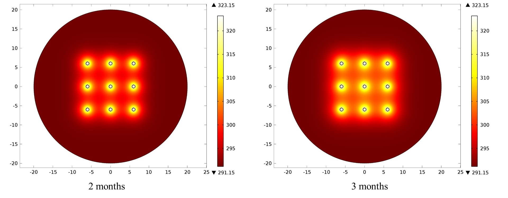 Thermal interaction